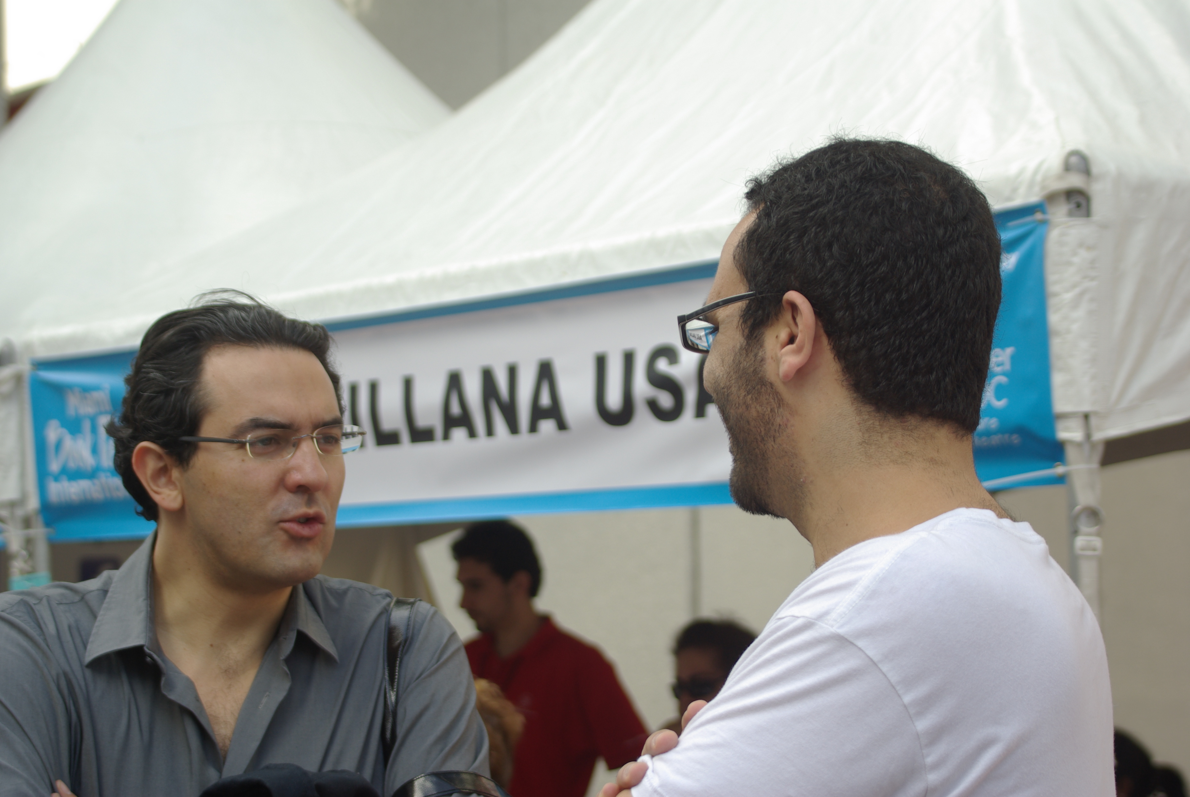 Colombian writer Juan Gabriel Vasquez with his Bolivian colleague Rodrigo Hasbún at the Miami Book Fair International, november 2011